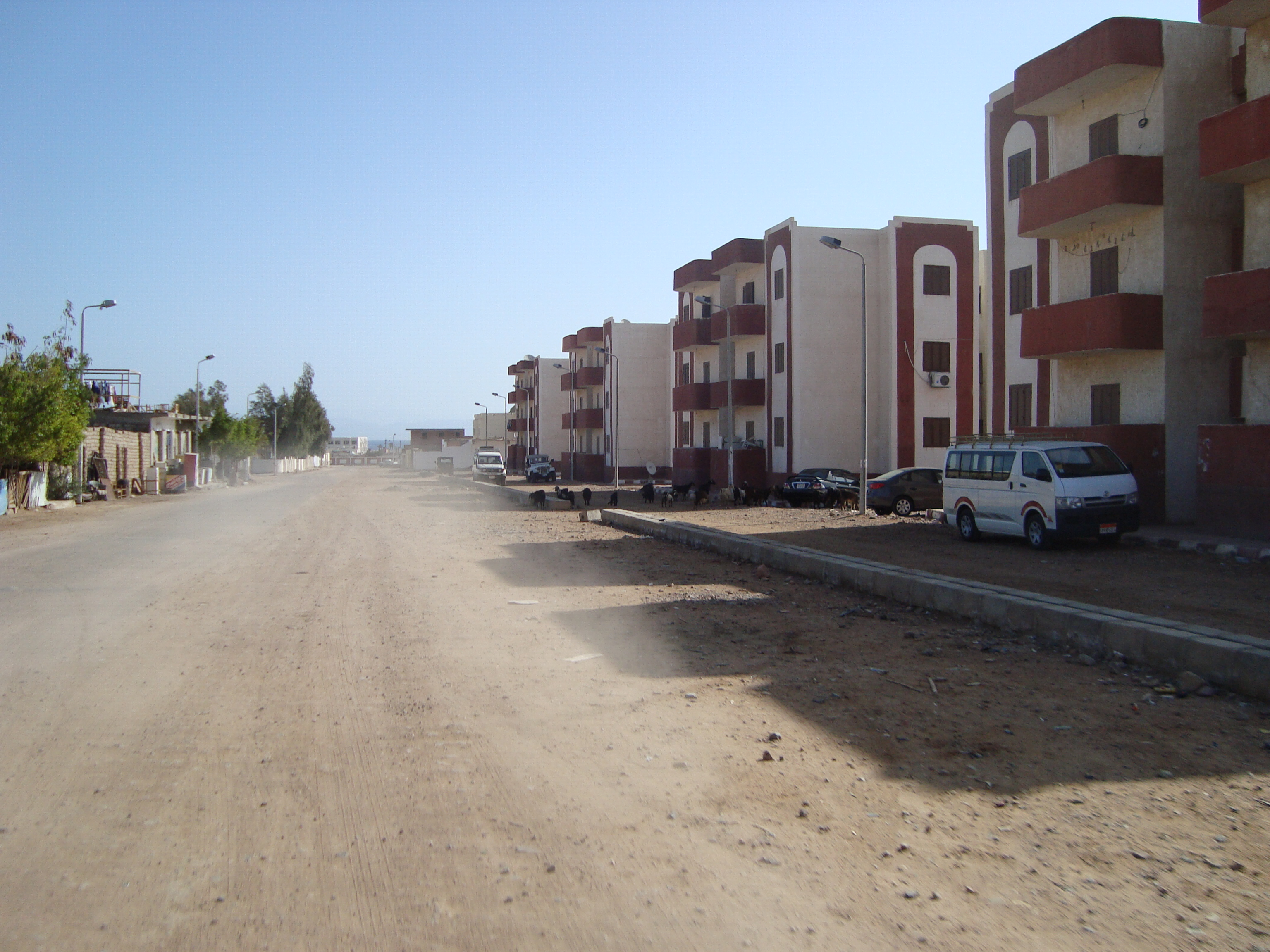 Housing estate in Dahab